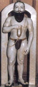 Jamb ramdas